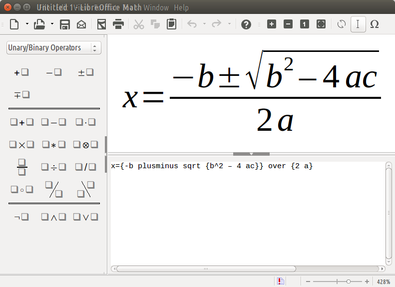 A screenshot from the LibreOffice Math which is the Formula Editor of the LibreOffice suit depicting the roots of a parametric quadratic equation.